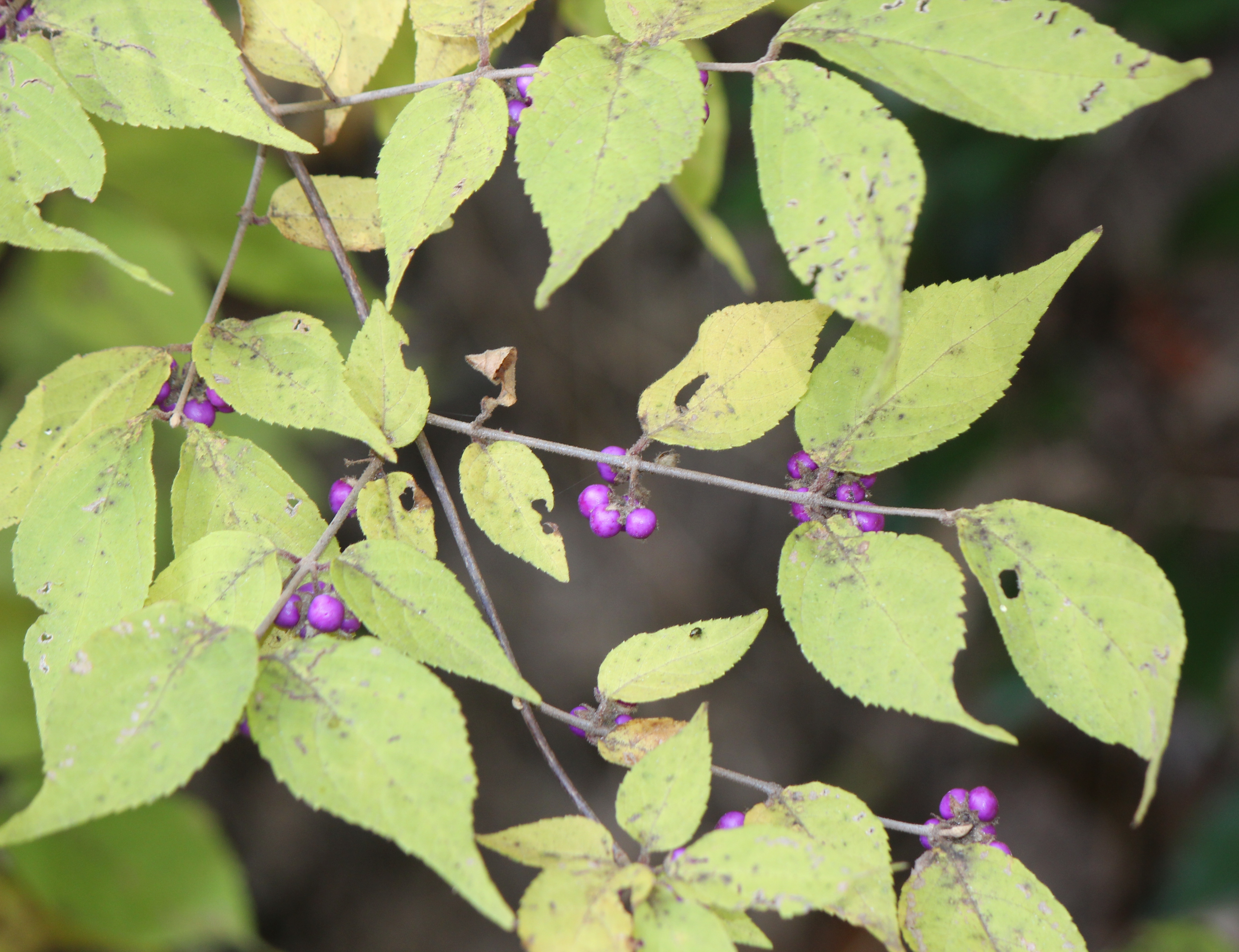 Callicarpa mollis in Yumihari Mountains, Toyohashi, Aichi Prefecture, Japan.